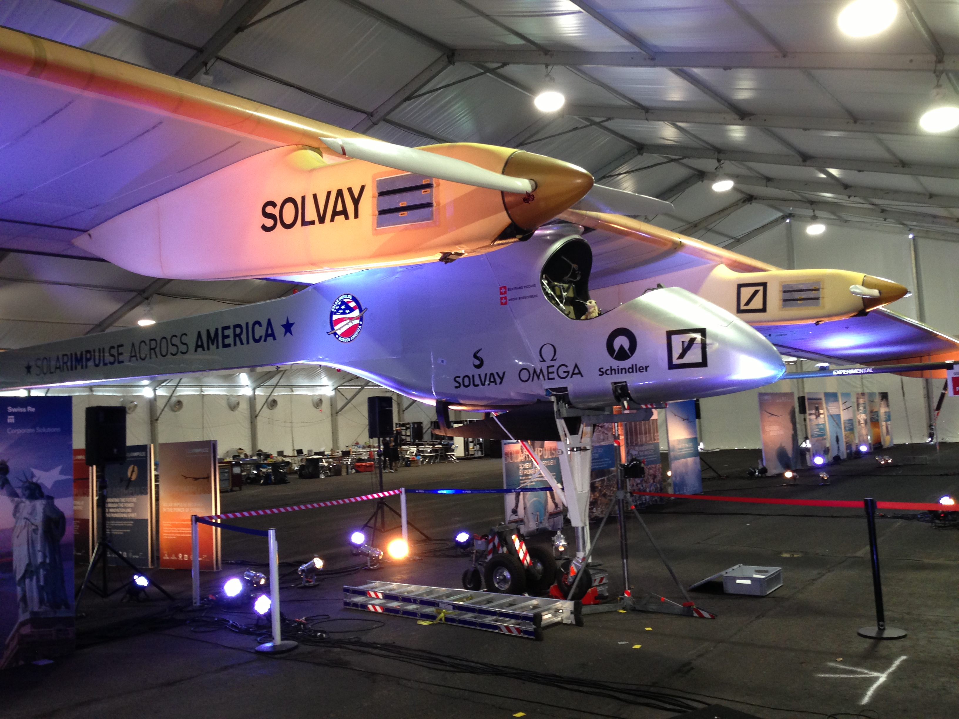 The Solar Impulse (HB-SIA) during its trip across American in Phoenix, Arizona.